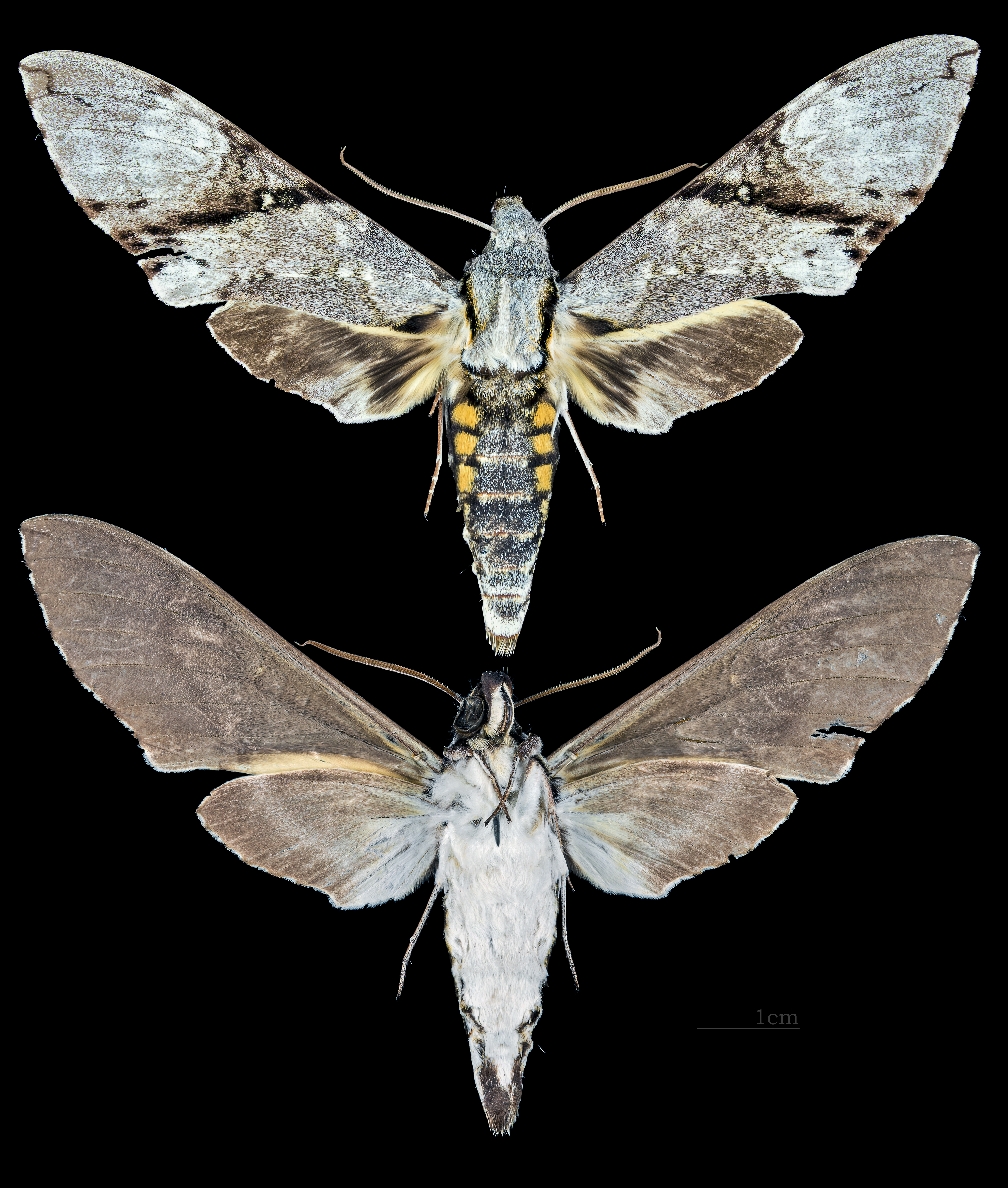 Manduca lefeburii - Two views of same specimen Collection of the Mathematician Laurent Schwartz